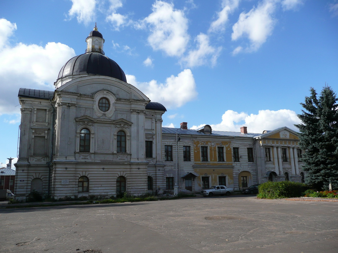 The former royal palace in Tver'